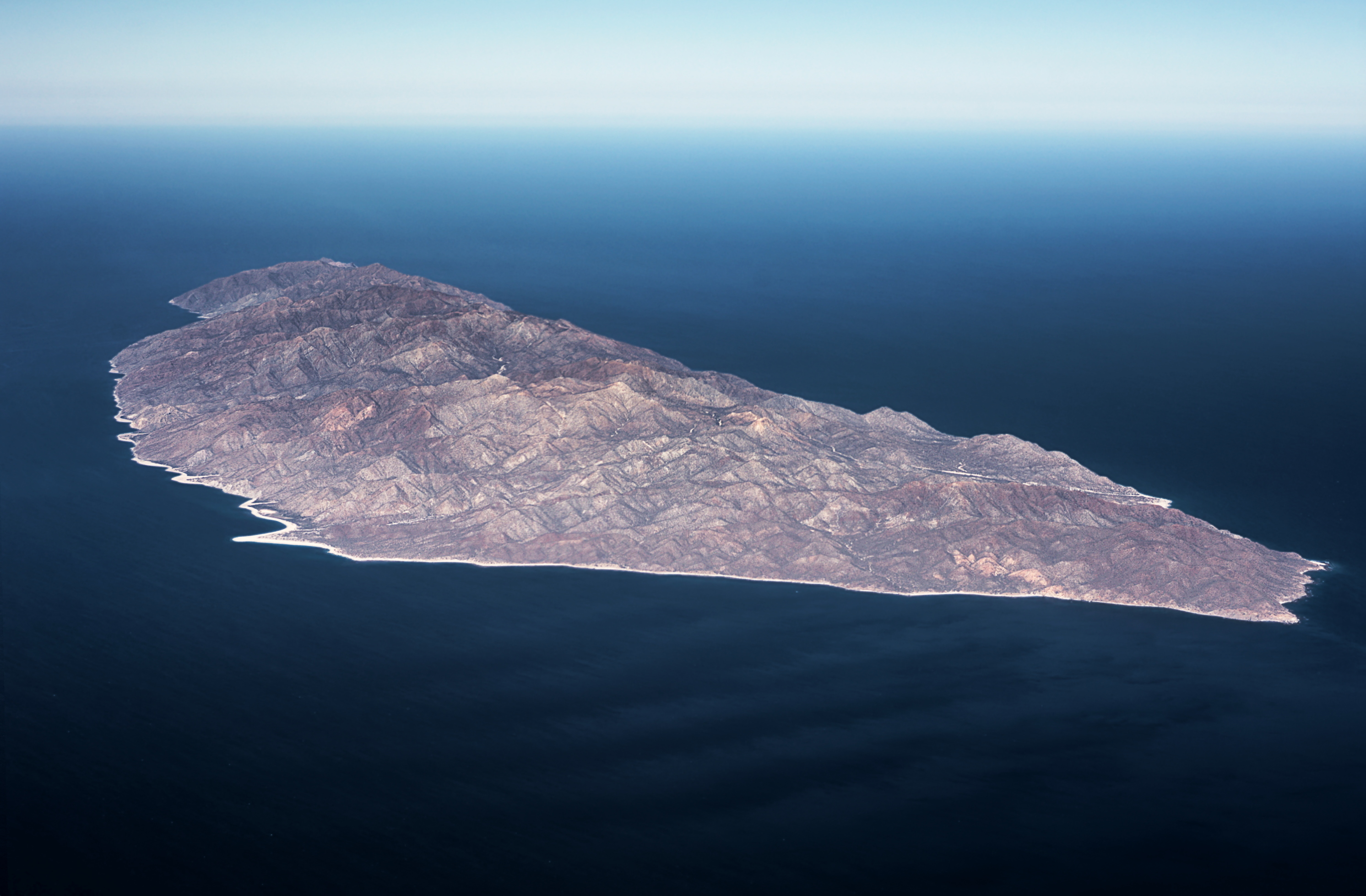 Aereal view of Jacques Cousteau Island, Baja California, Mexico